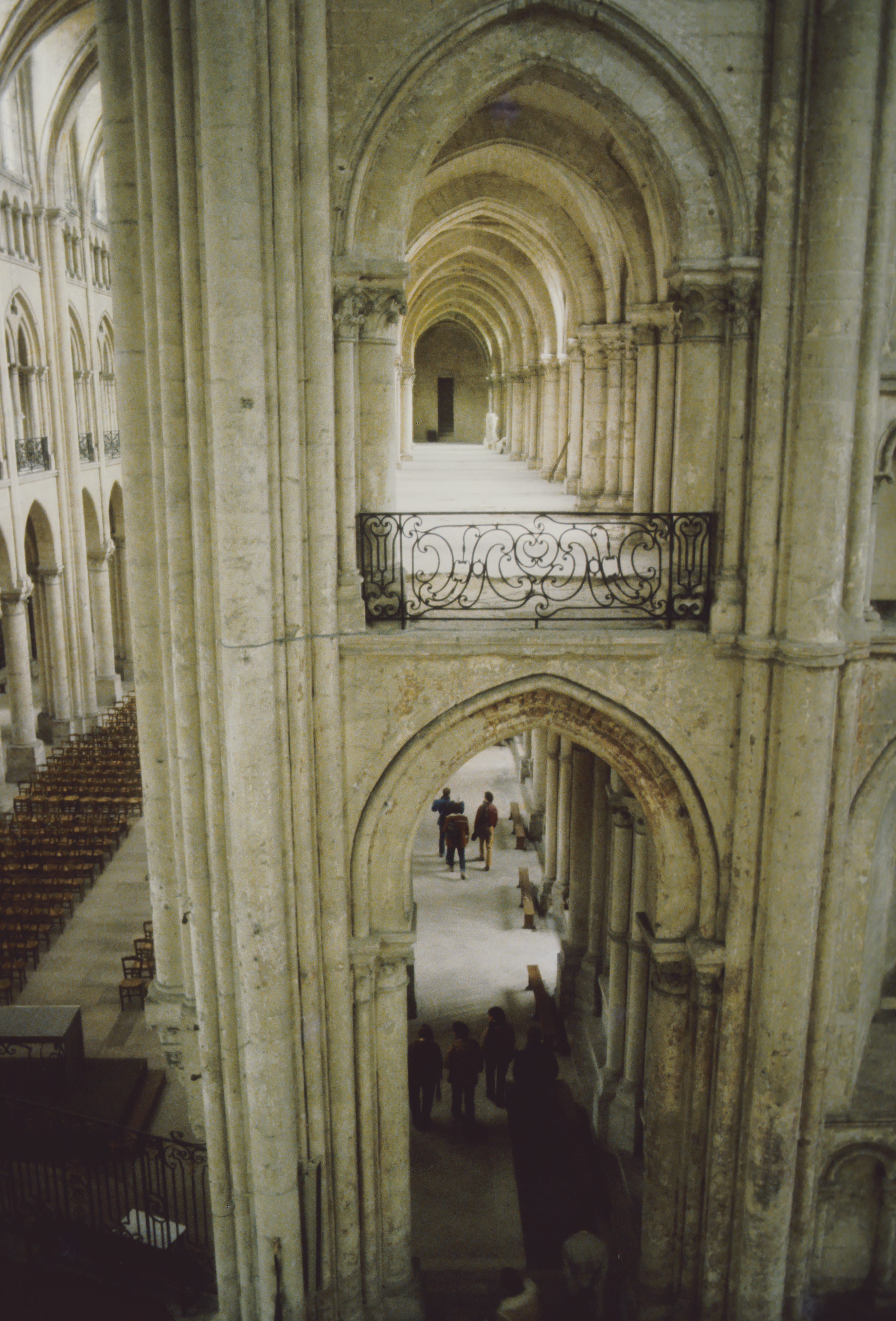 Tribune gallery of Noyon Cathedral at transept